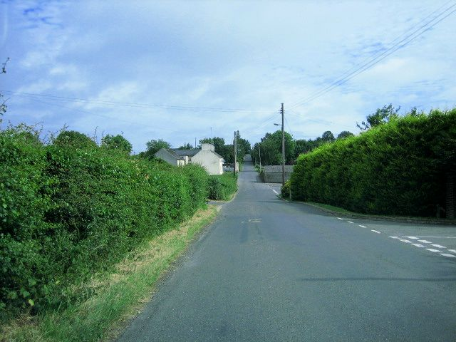 Loughinisland.